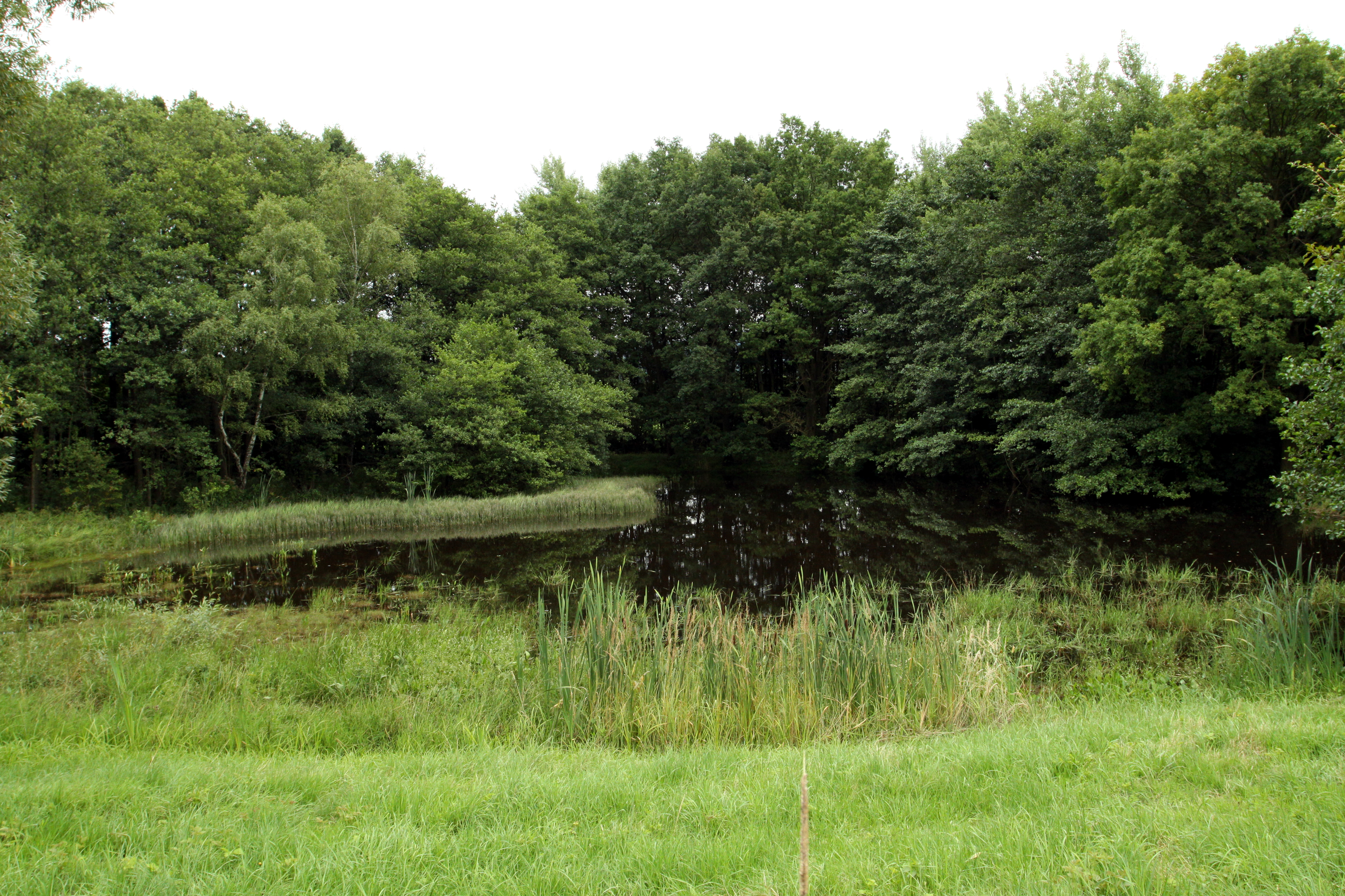 Nature reserve Libouchecké rybníčky close to Libouchec village in Ústí nad Labem District, Czech Republic